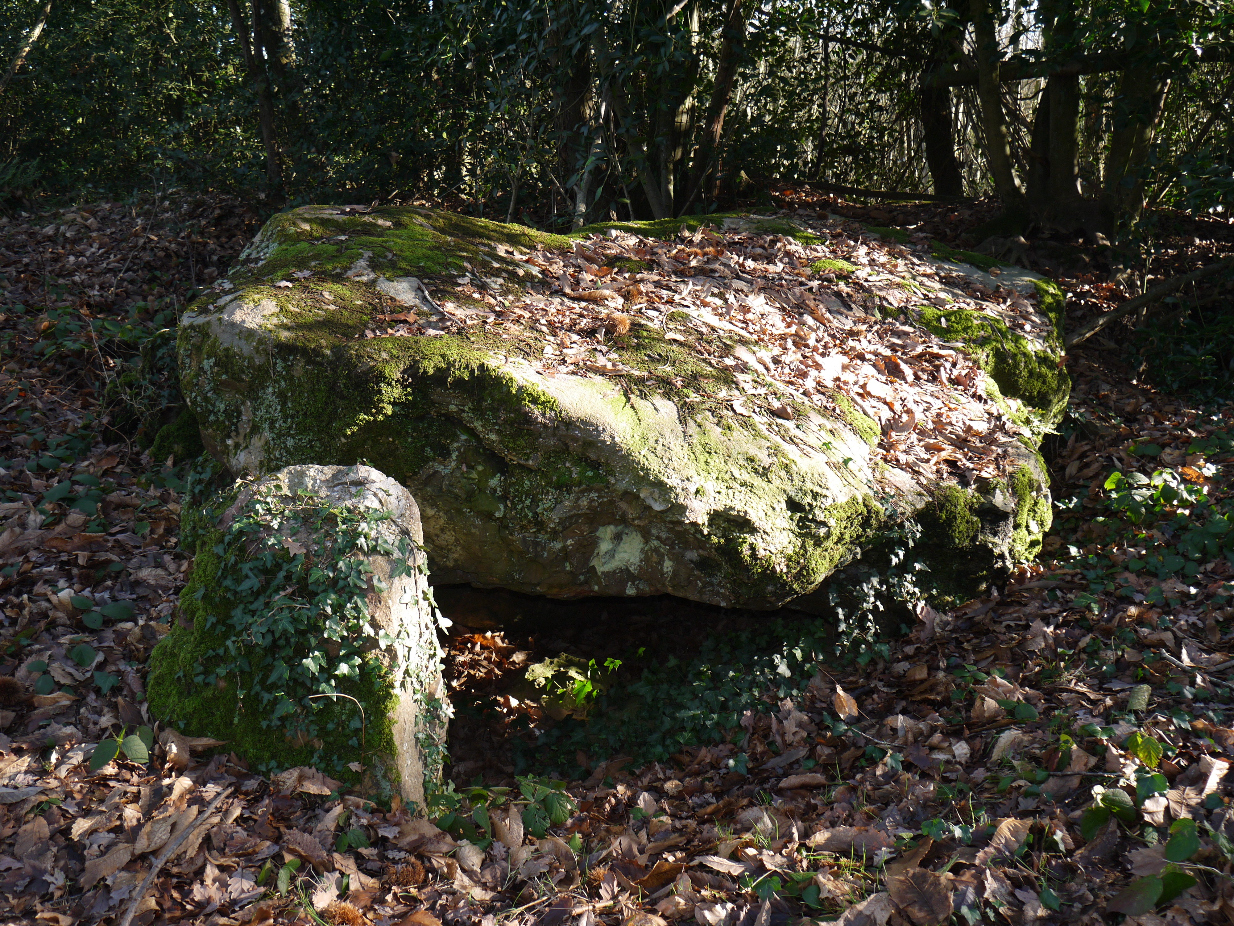 Dolmen de La Ferrière-de-Flée